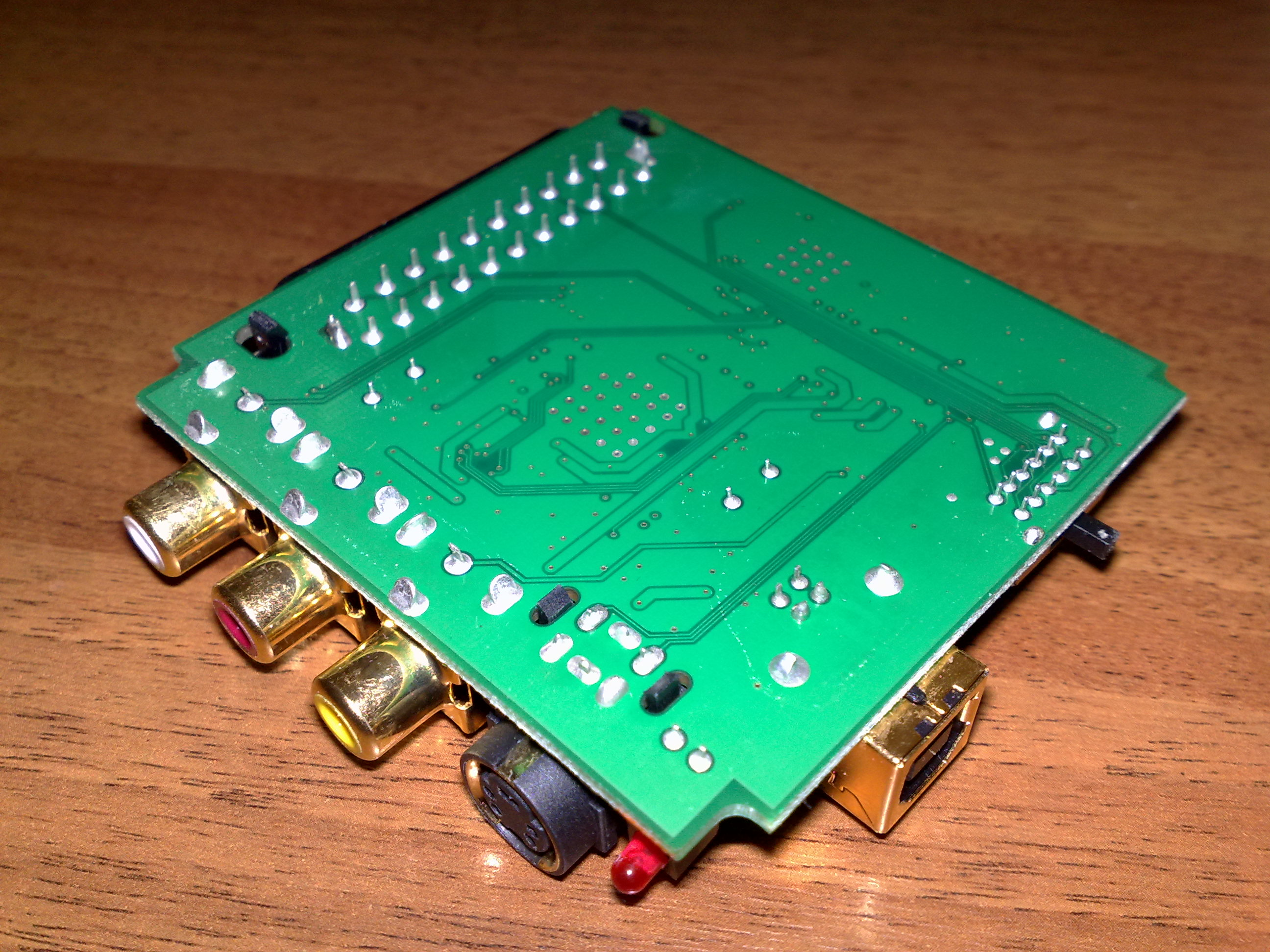 USB 2.0 video/audio capture device circuit board. Software compression.